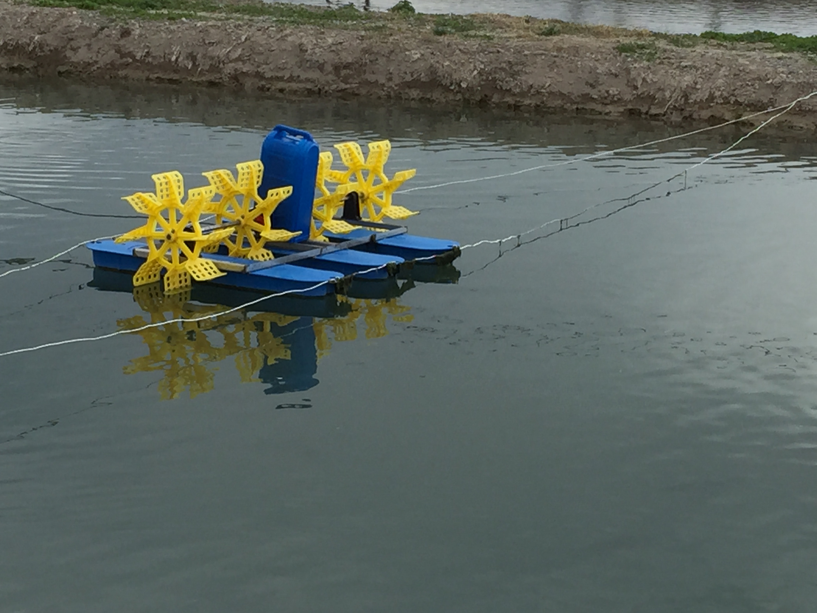 Aerator in a fish pond.